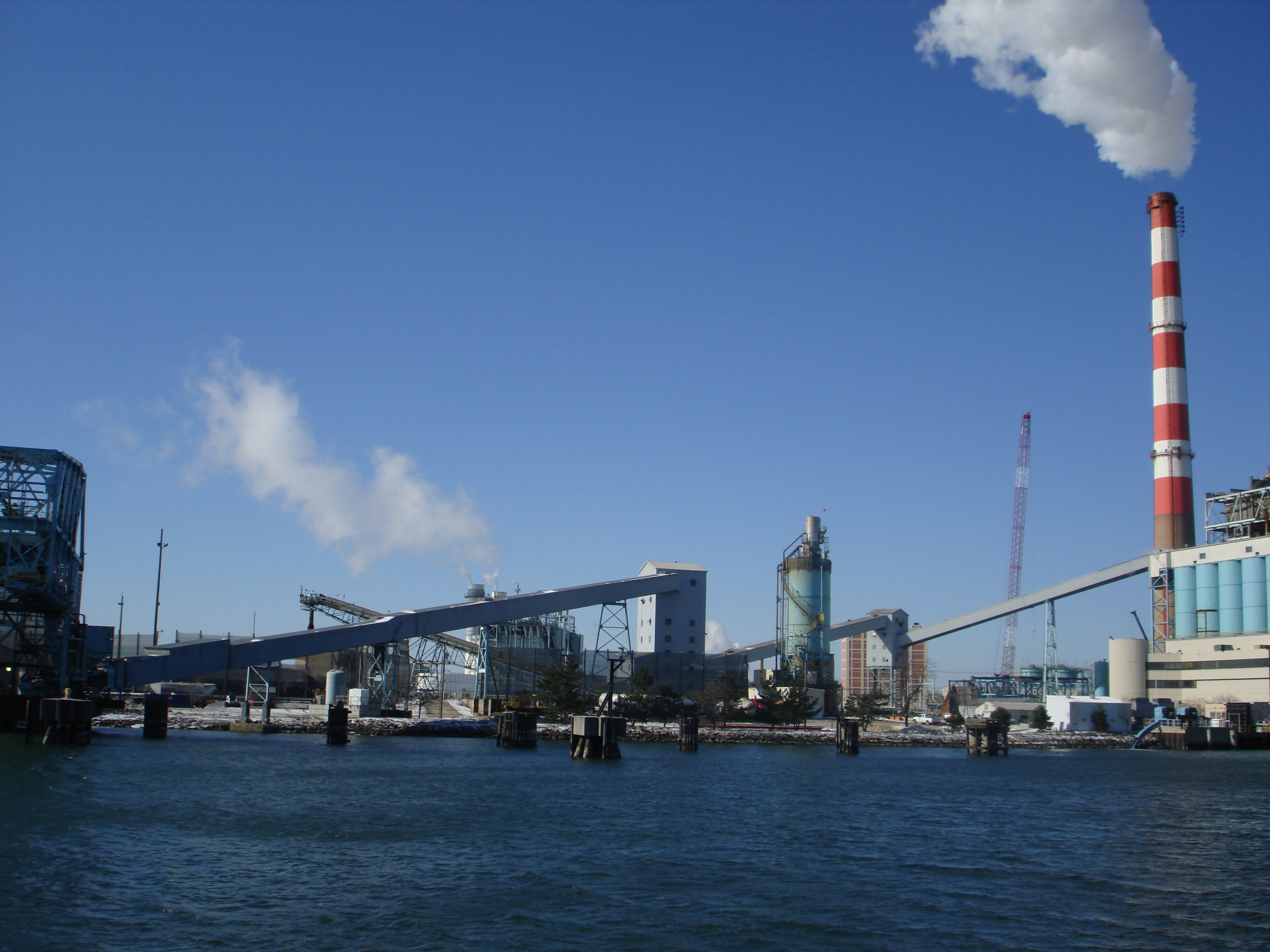 A portion of the harbor in Bridgeport.